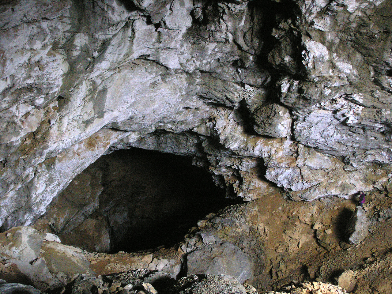 Just inside the entrance of Bulmer Cavern, New Zealand, is the first shaft of this multi-pitch system. Note the caver on the right side of the photo.